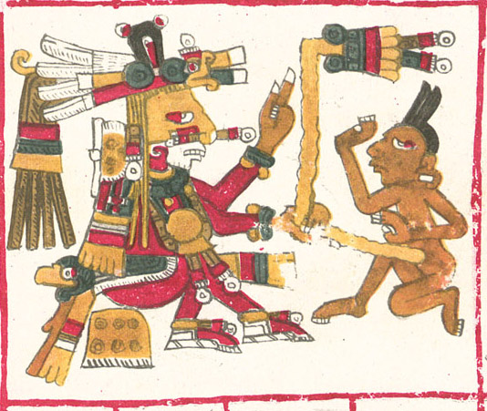 A drawing of Xochipilli, one of the deities described in the Codex Borgia